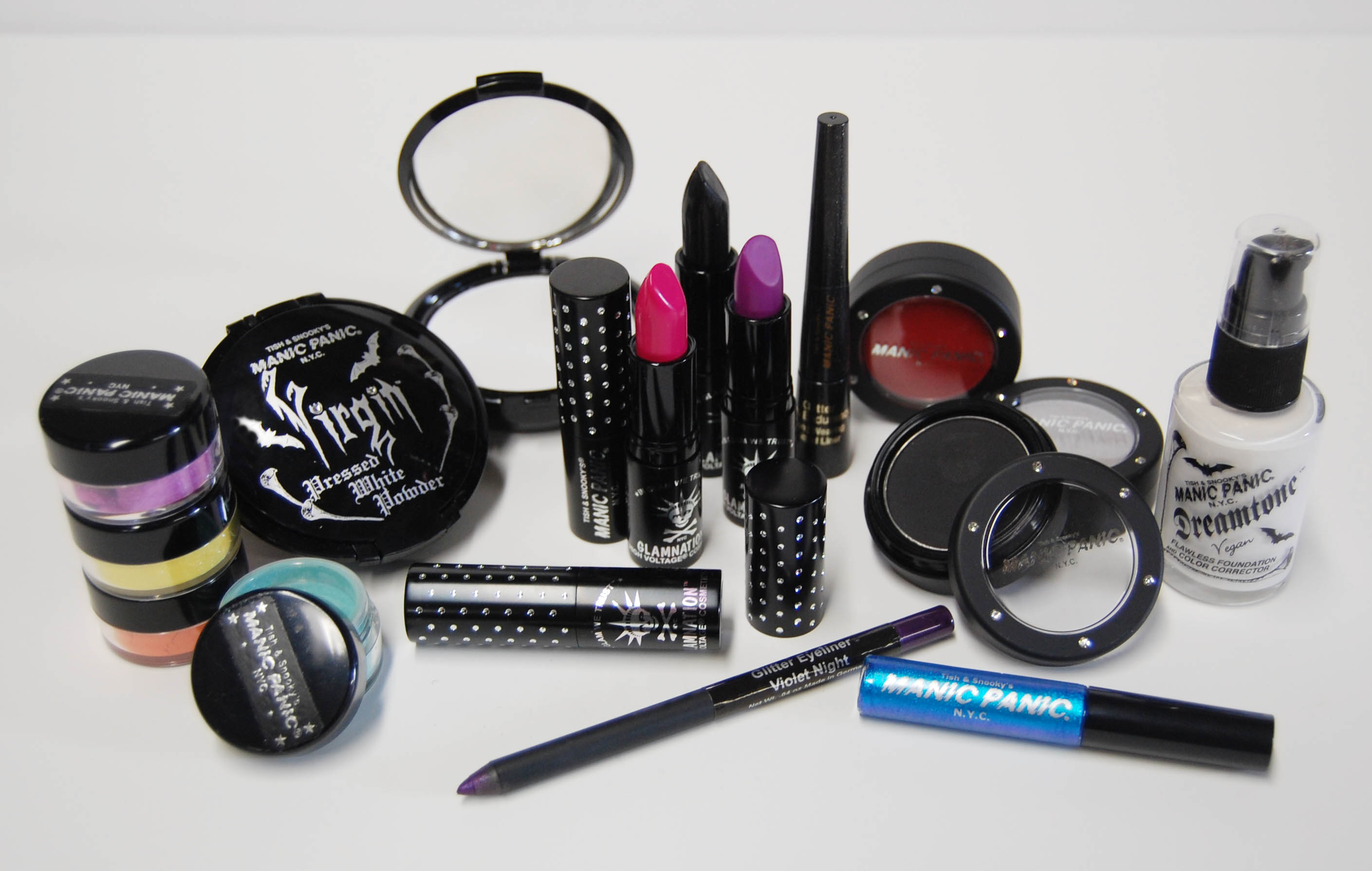 An assortment of MANIC PANIC® cosmetics.